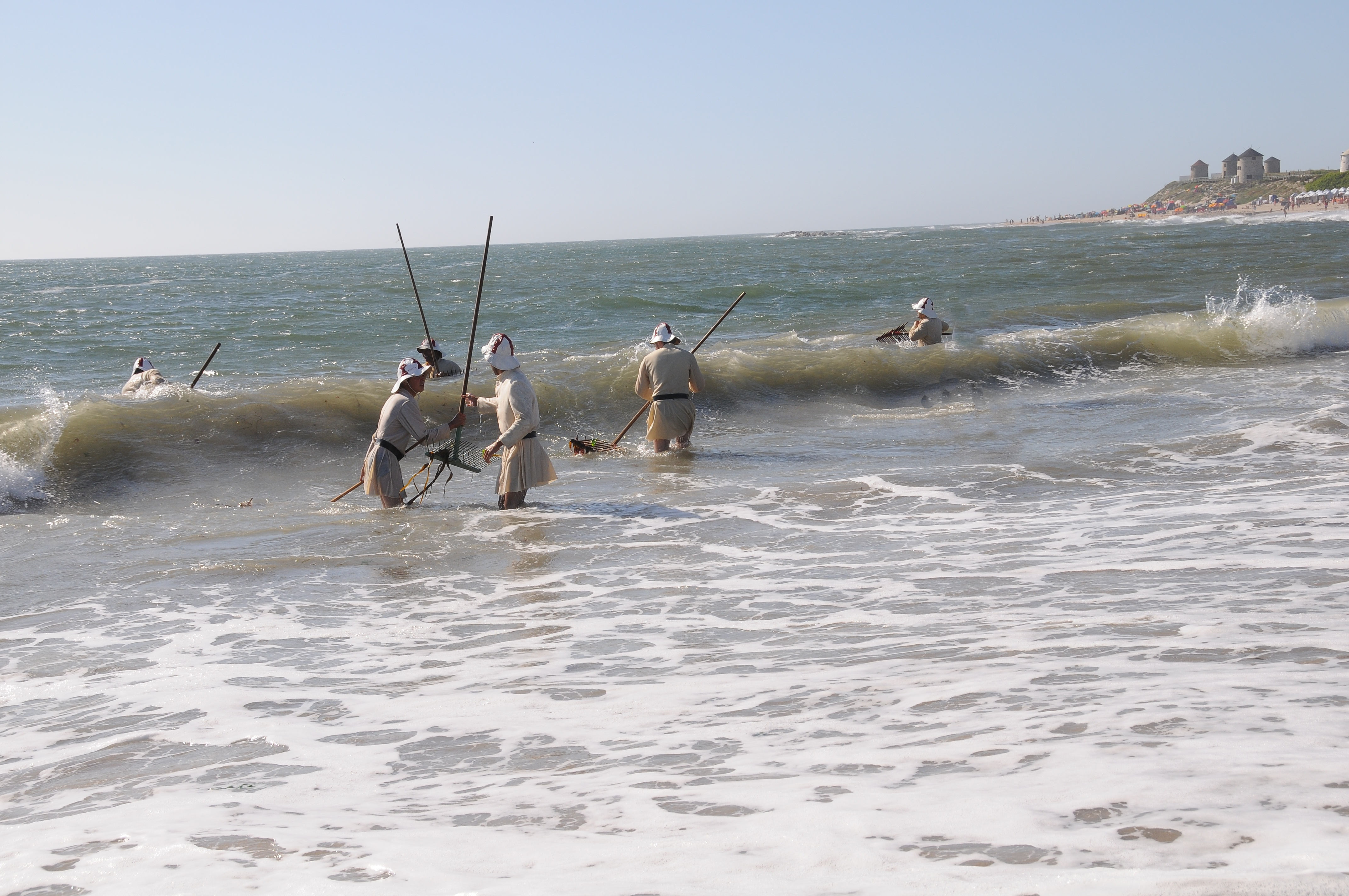 Traditional collecting of seaweed, used as fertilizer, in Apulia Esposende, Portugal.